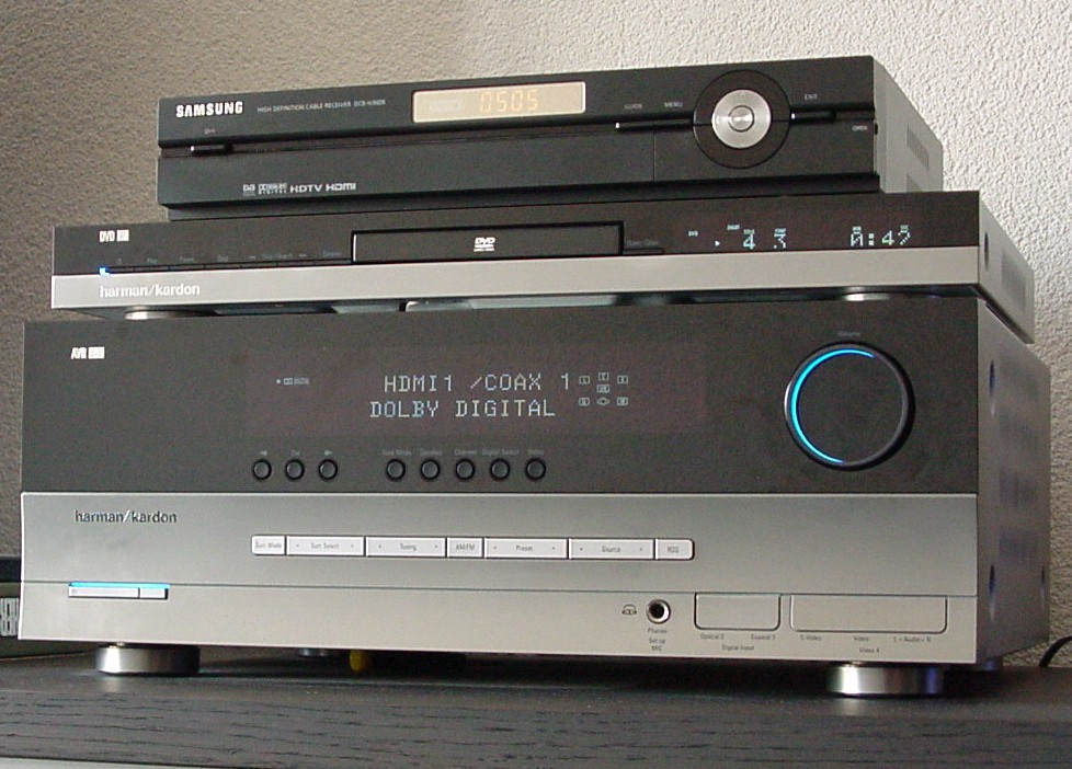 Harman/Kardon AVR 245, DVD 37 and Samsung DCB H360R